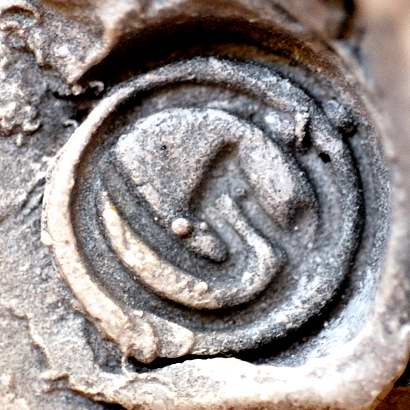 Sculptor sign "Bert Gerresheim"